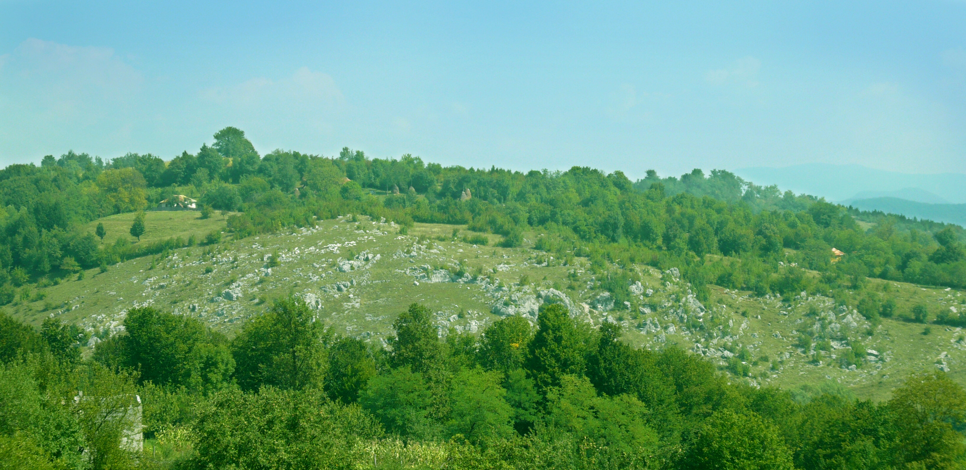 Limestone Land